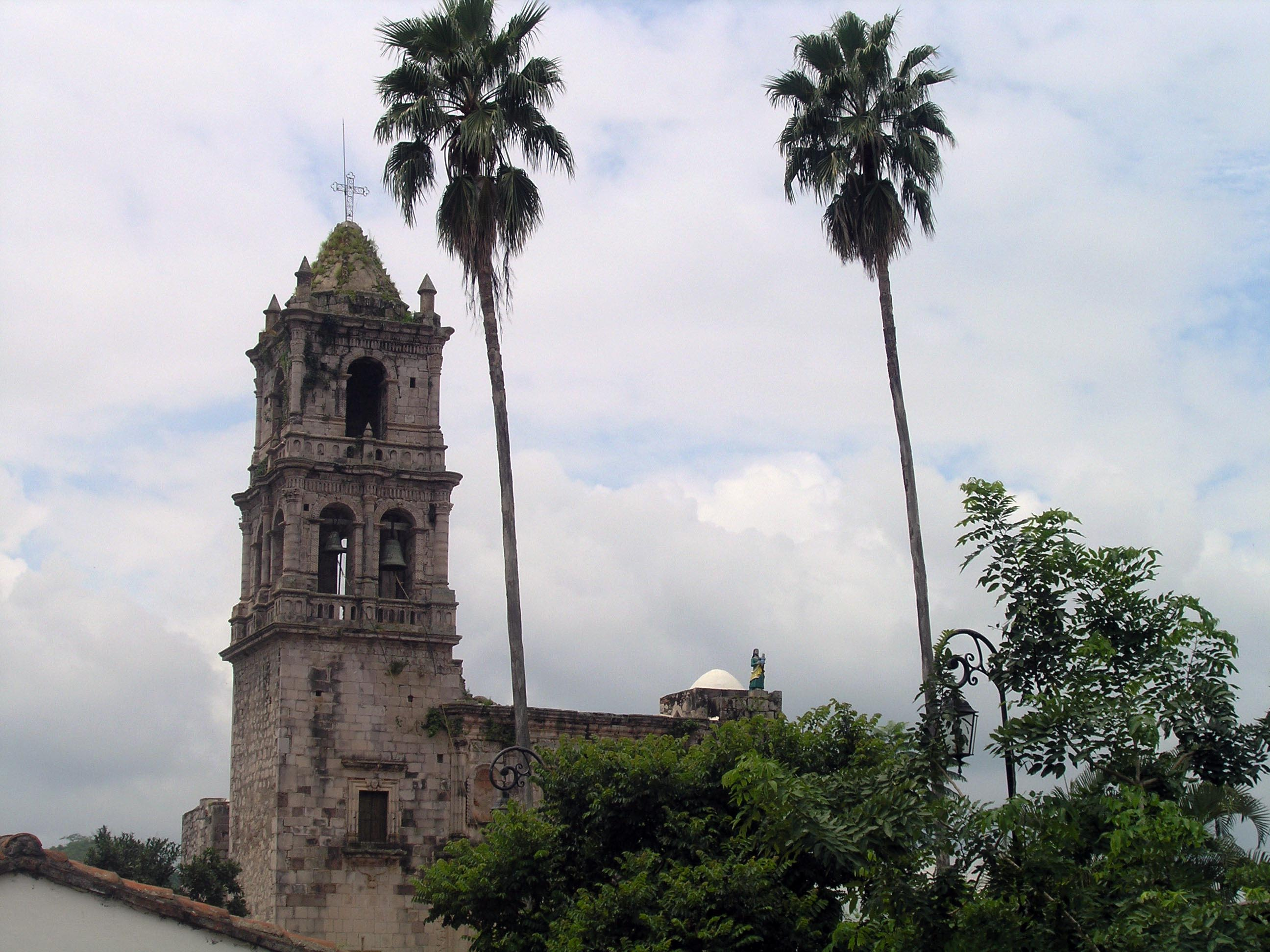 Church of San Jose, Copala, Sinaloa.